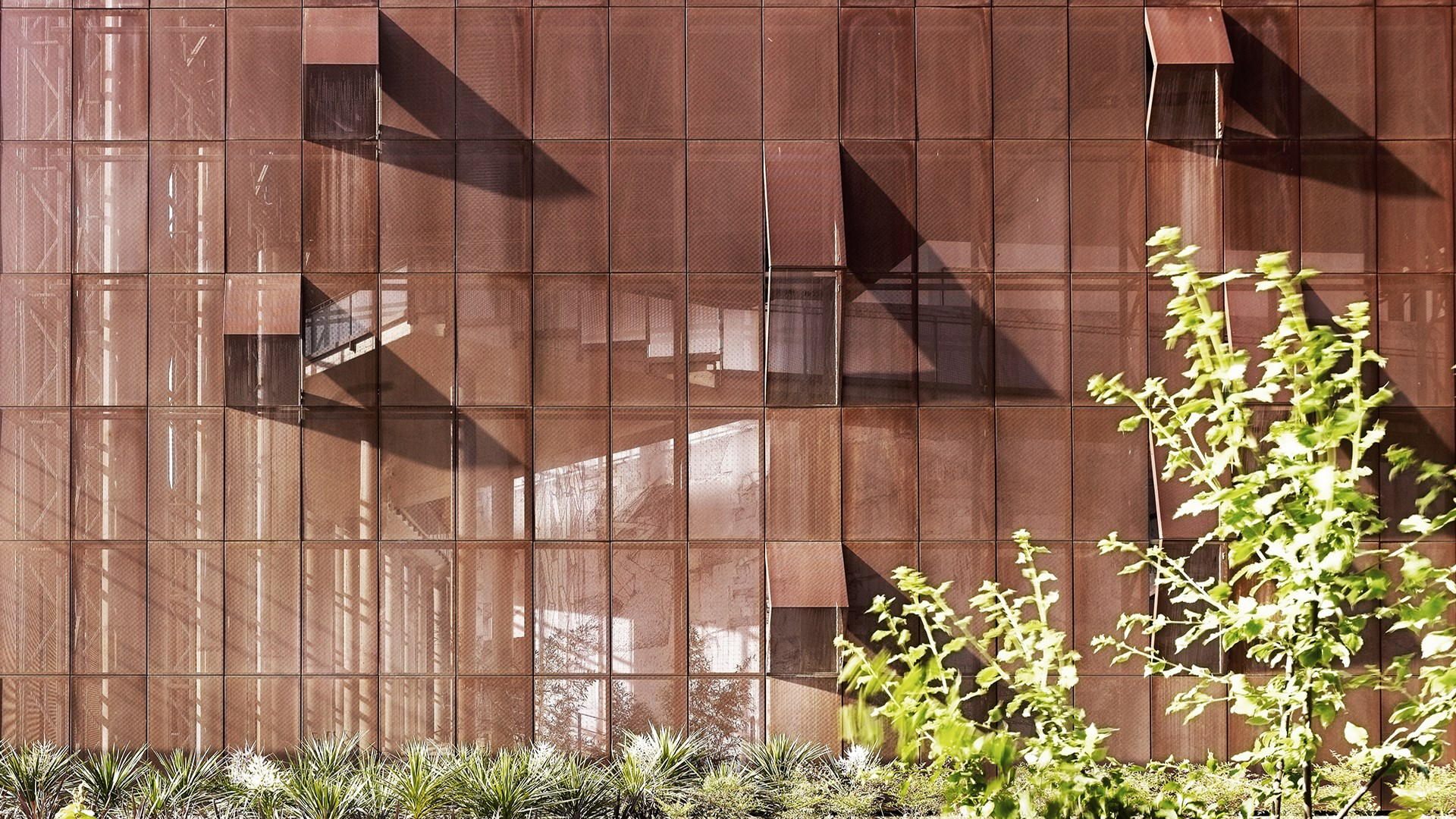 Yalova is located in northwestern Turkey near the Sea of Marmara. A city of about 100,000 residents, it is known for its industry but also its arboretums and rich variety of endemic plants. The client for the 7.000-square-meter (75,347 square feet) project completed in 2007 was Akkök, the largest industrial company in Yalova, which planned to hand it over to the municipality. The city intends to create a garden in front of the complex.